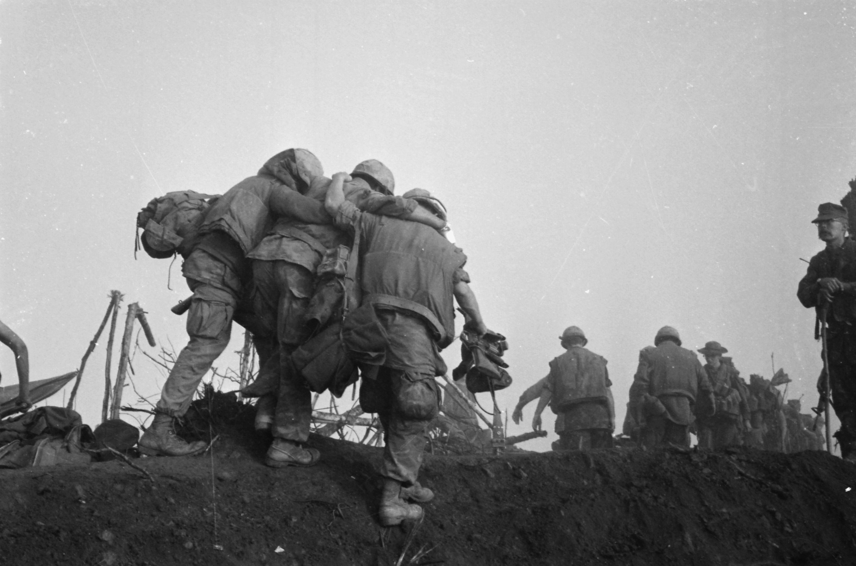 Original caption: Vietnam....A Marine is helped to an evacuation point by two buddies after he was wounded during an enemy probe of his unit's position during Operation Dewey Canyon. Marines killed 12 North Vietnamese in the fighting northwest of the A Shau Valley.